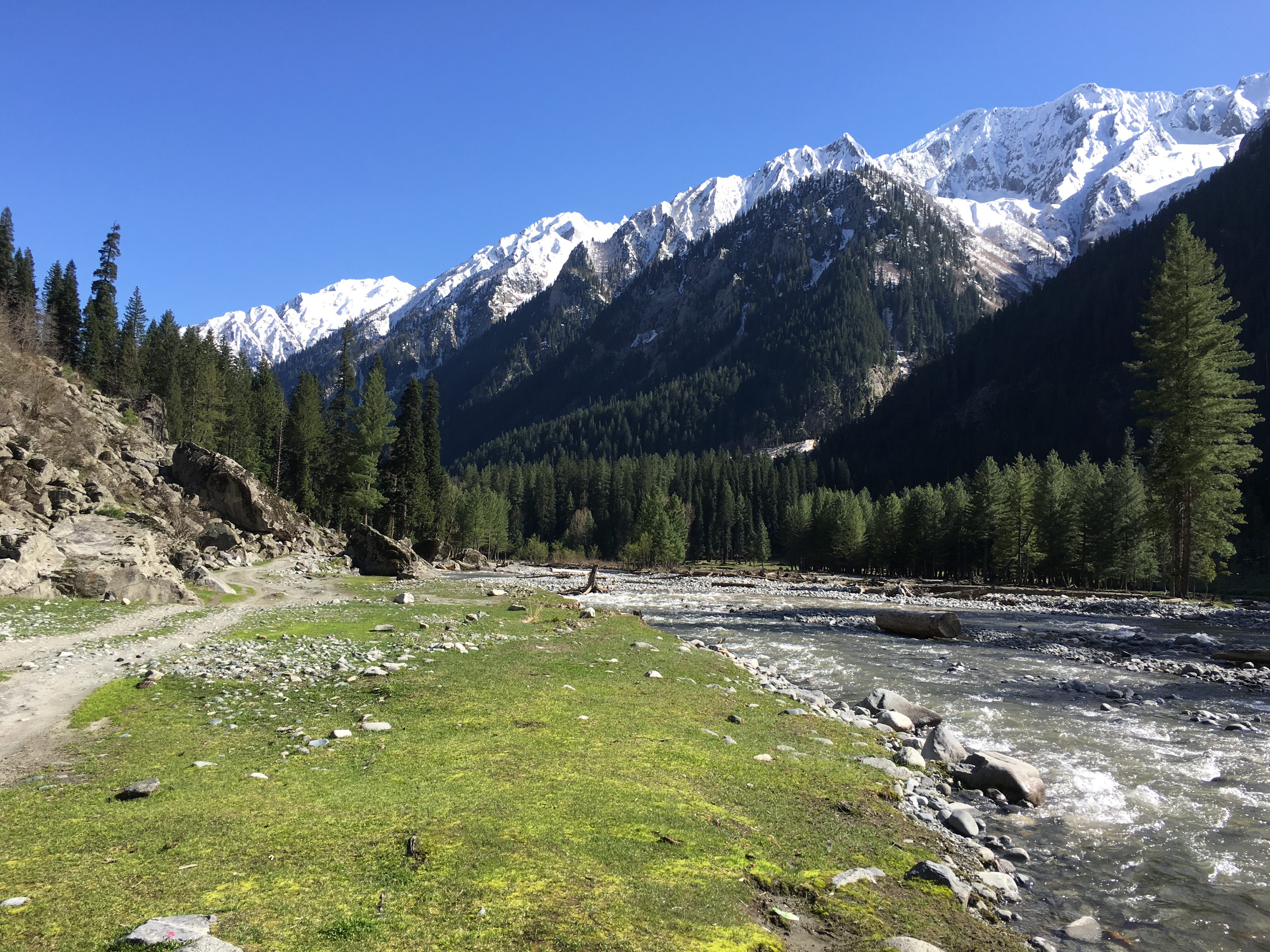 Kumrat Valley, Dir, KPK